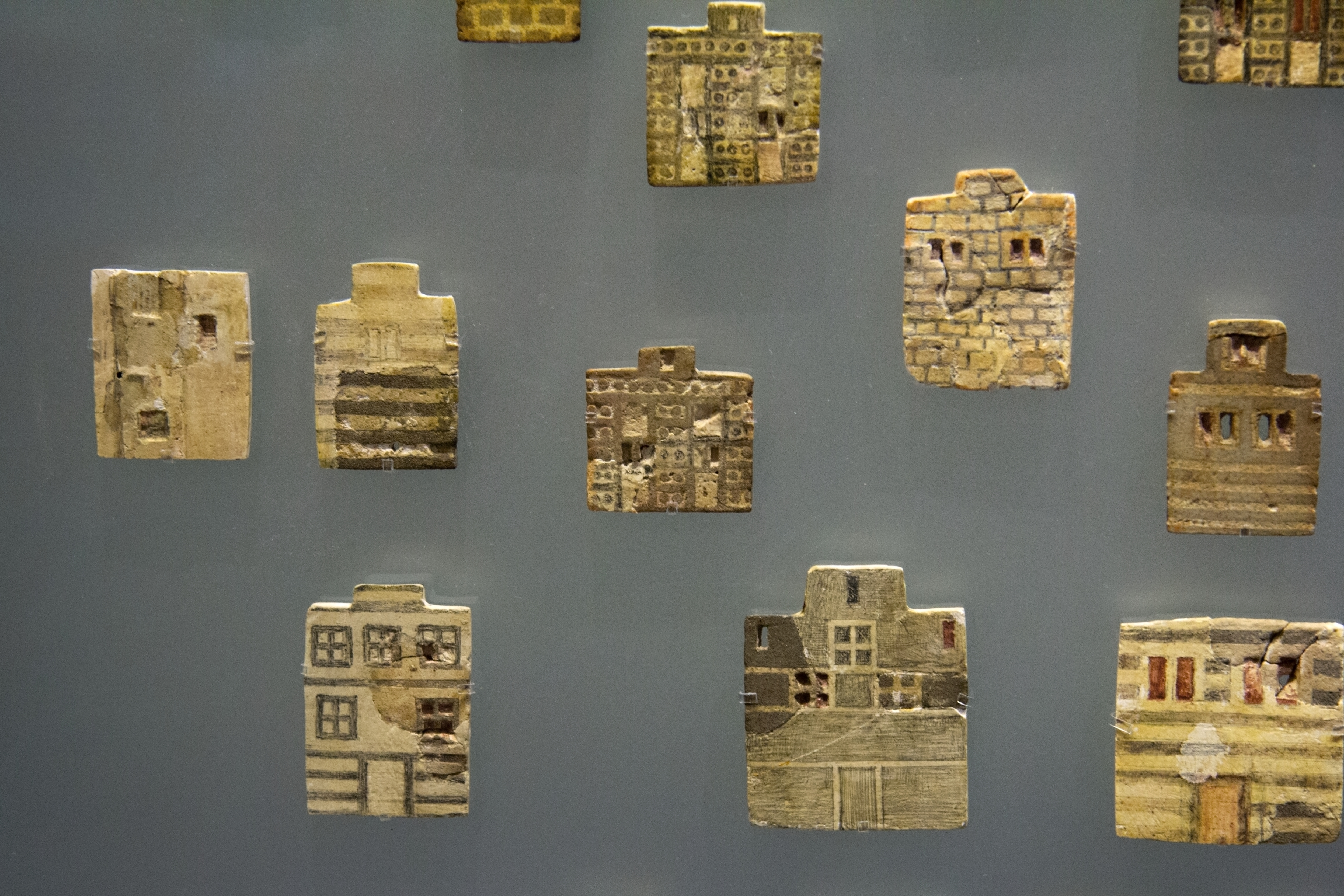 The Town Mosaic. An assembladge of painted faience plaques, probably from the inlaid decoration of a piece of luxury wooden furniture. Knossos Palace, 1700-1600 BC. Archaeological Museum of Heraklion.